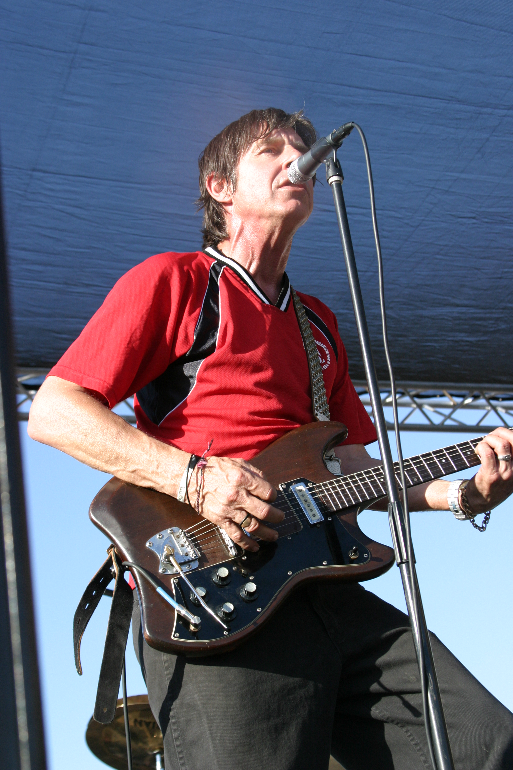 Musician John Doe performed at Adams Avenue Street Fair in September 2006. Photograph by Patty Mooney of San Diego, California. guitar: Guild S-100 Polara (released in 1964)